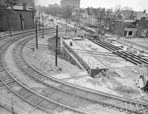 Construction of the Mount Pleasant Road underpass at Bloor Street in 1949 involved the TTC redirecting its tracks to the south, against its will.